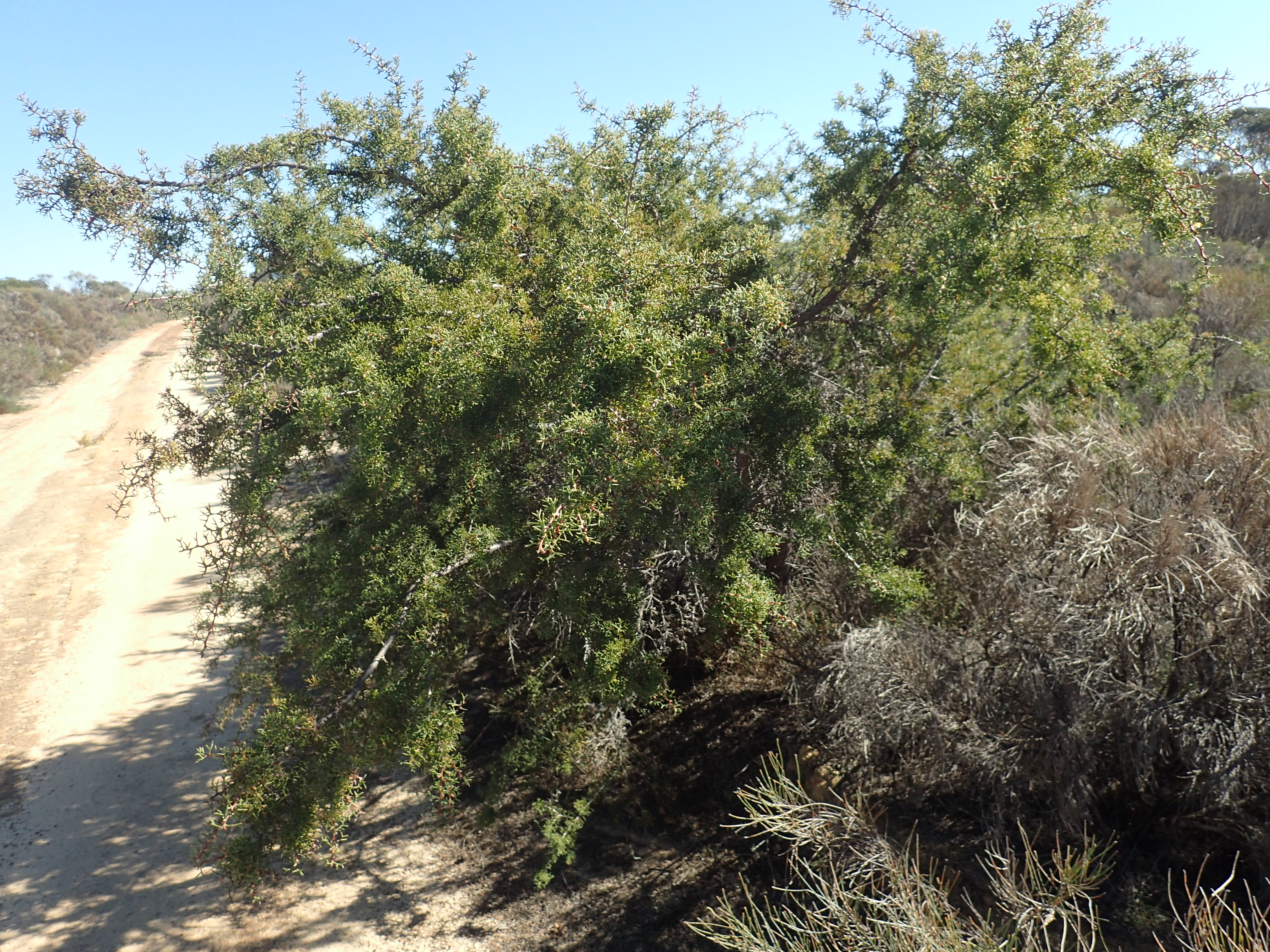 Hakea horrida growing near Mount Madden, south-east of Lake King